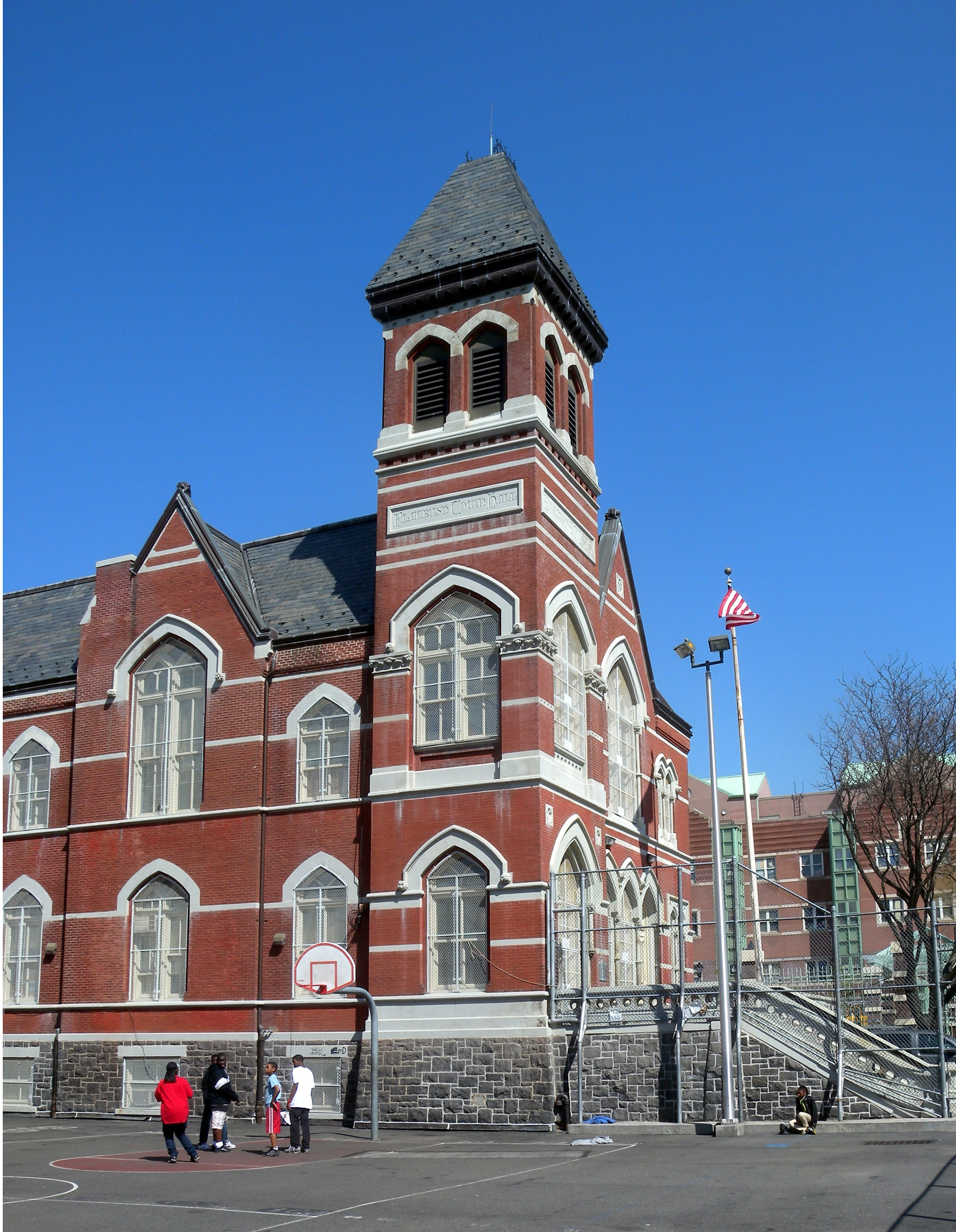 Looking east on a sunny afternoon at Flatbush Town Hall. ZIP 11226.